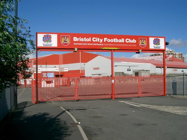 Ashton Gate - home ground for Bristol City FC